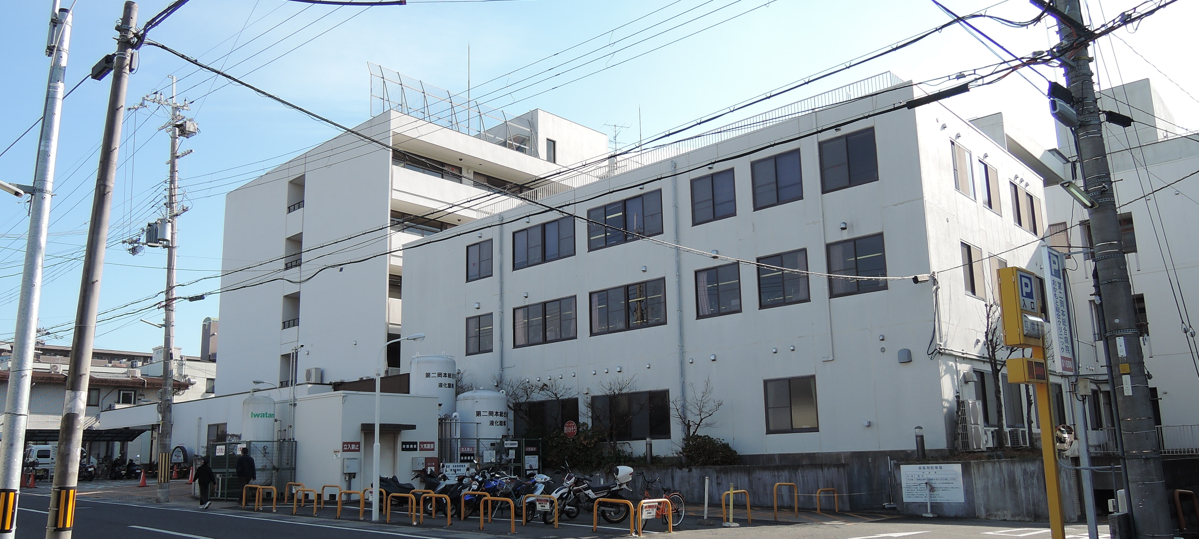 Daini Okamoto General Hospital ,Kyoto prefecture, Japan